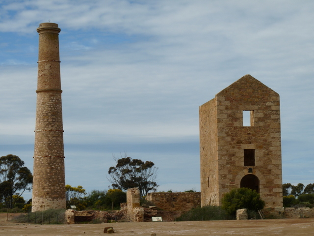 The ruins of Hughes Enginehouse and mine chimney, Moonta Mines